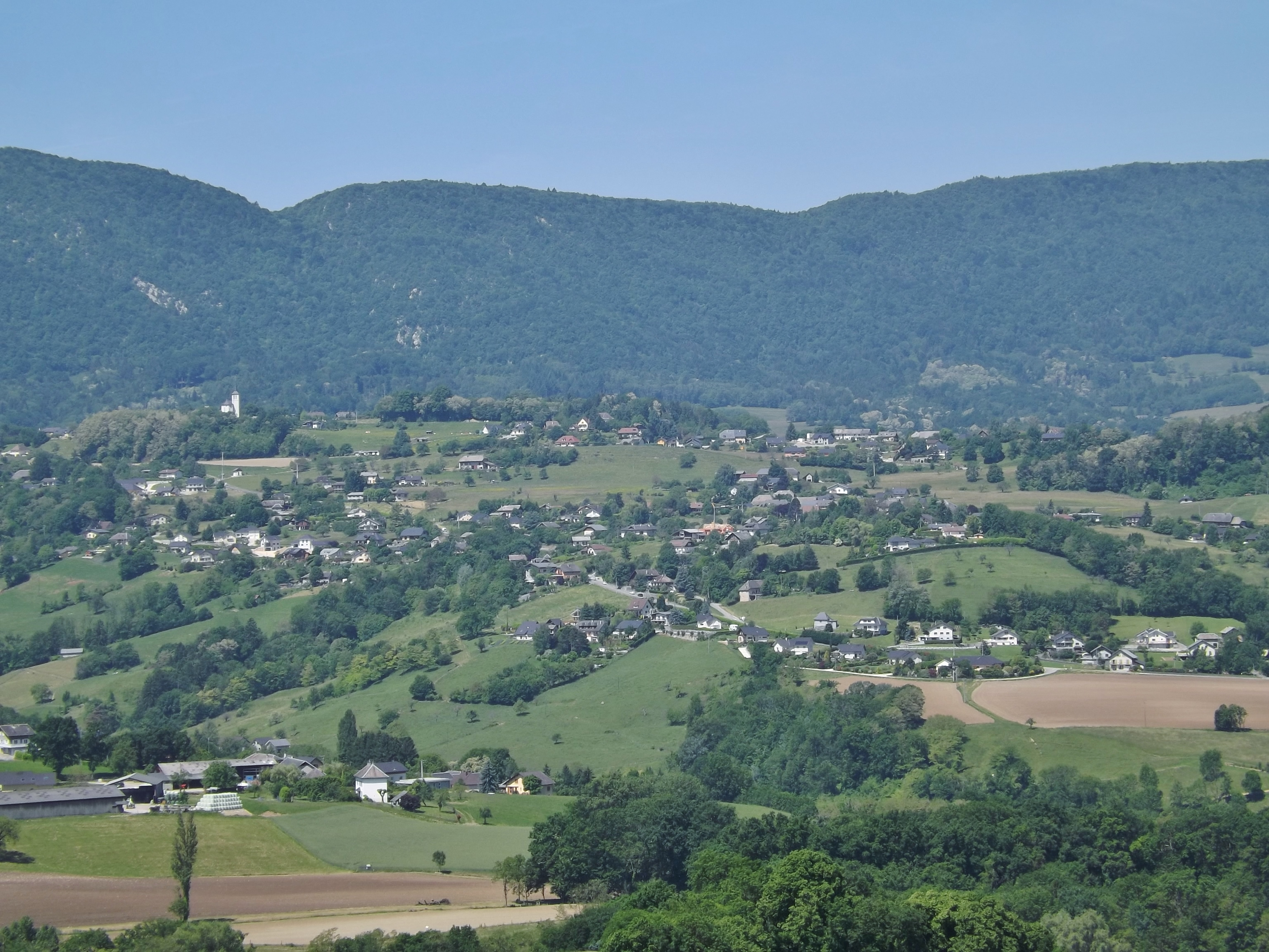 Panoramic sight, from the heights of Montagnole, of the French commune of Vimines and its several hamlets, at the foot of the chaîne de l'Épine mountain, near Chambéry in Savoie.